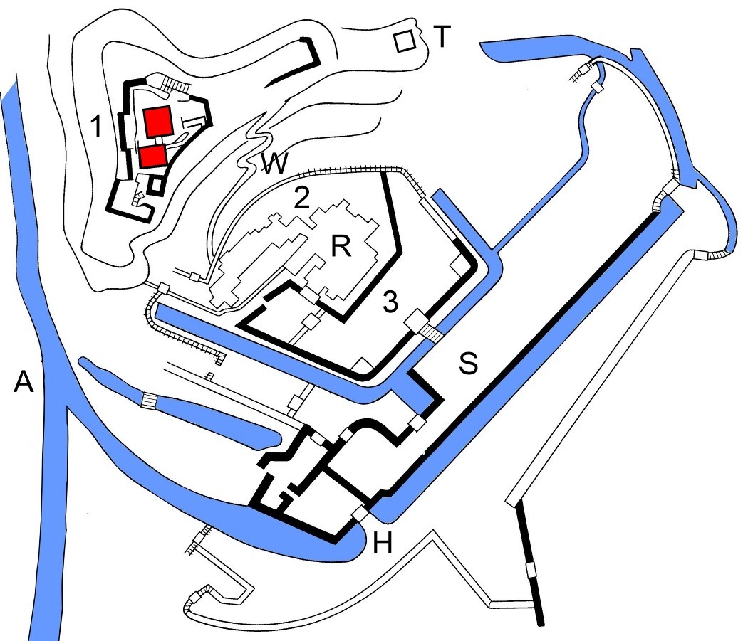 Layout of Ono Castle, details marked